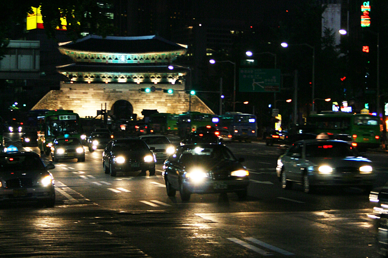 Namdaemun (Great South Gate) in Seoul at night.